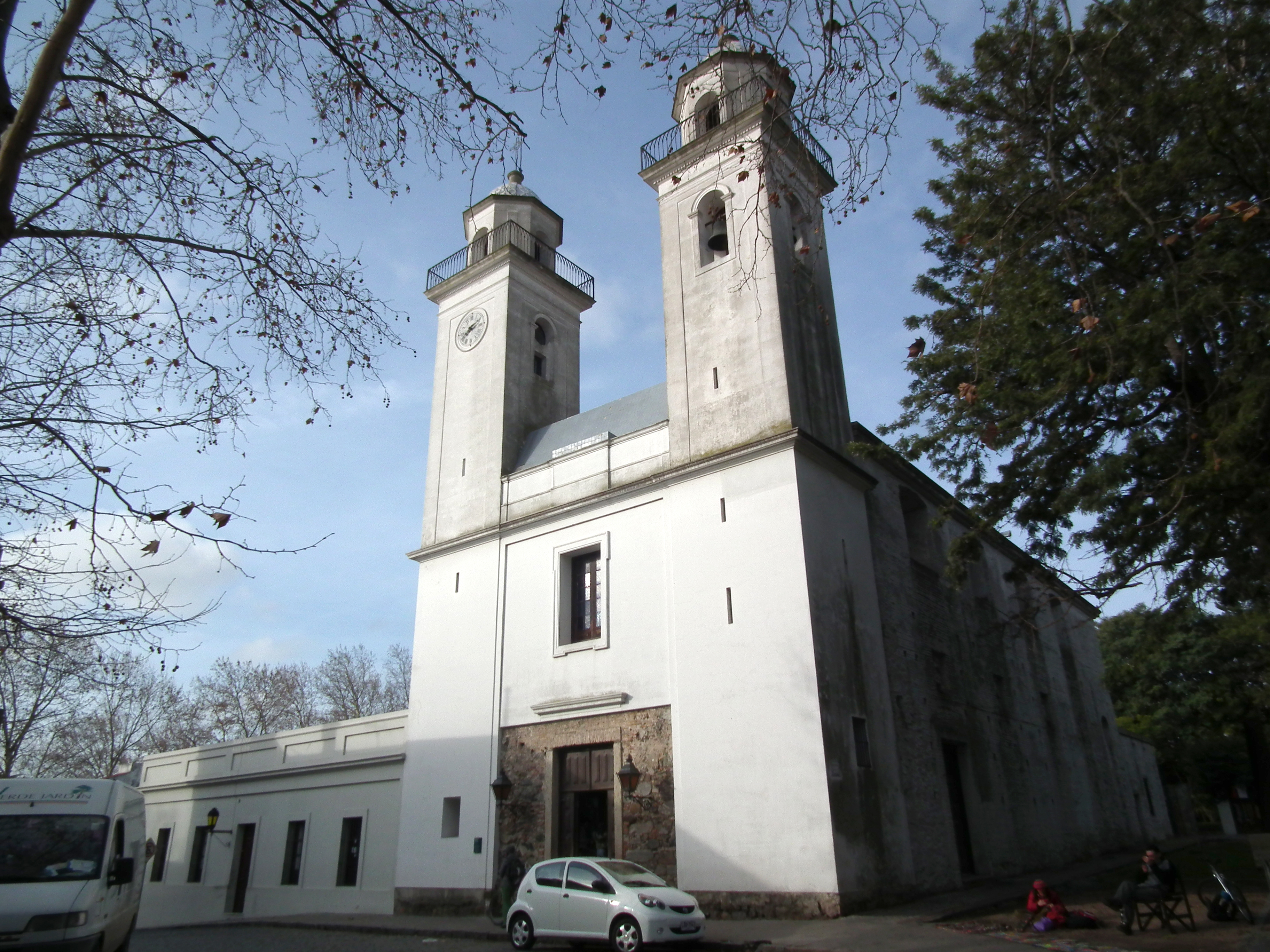 Main facade of the Matriz Church of Colonia del Sacramento (Uruguay)